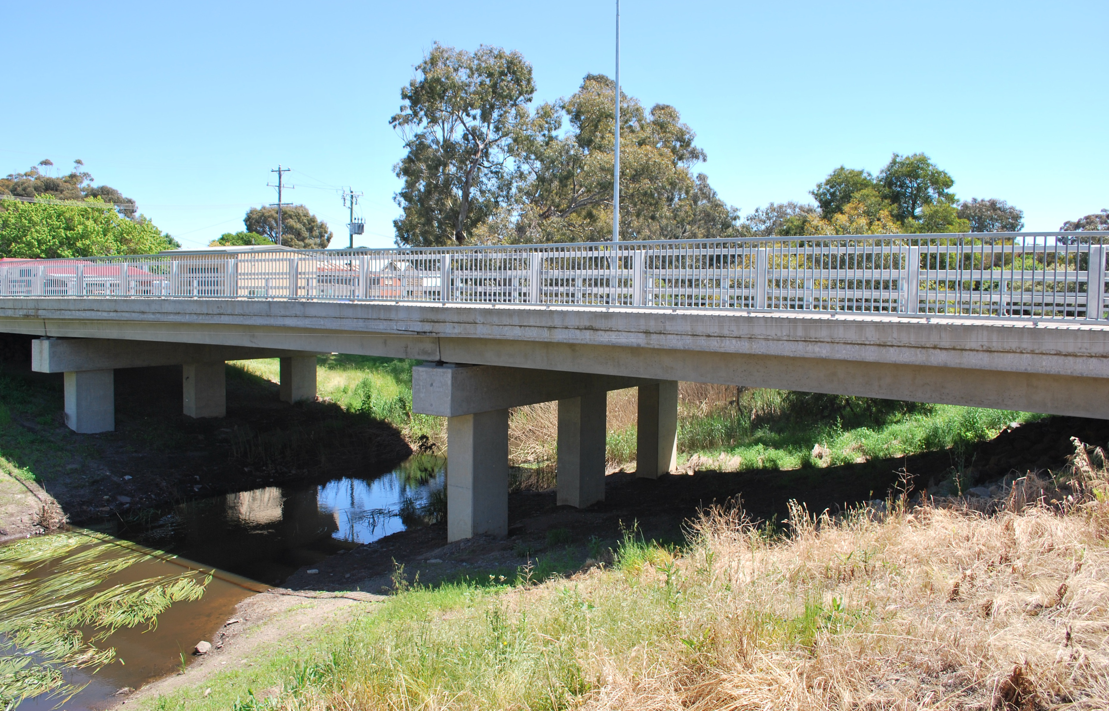 Bridge over Mount Emu Creek at Skipton, Victoria